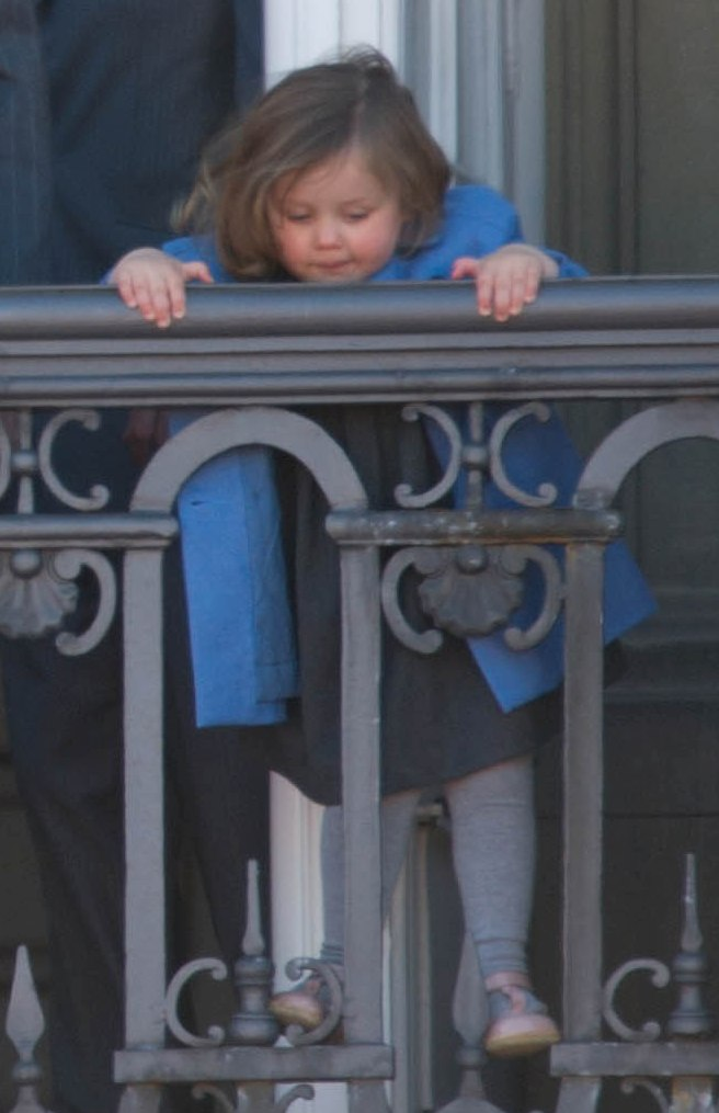 Picture showing the Royal Family of Denmark during Queen Margrethe II 70th birthday, 16 April 2010